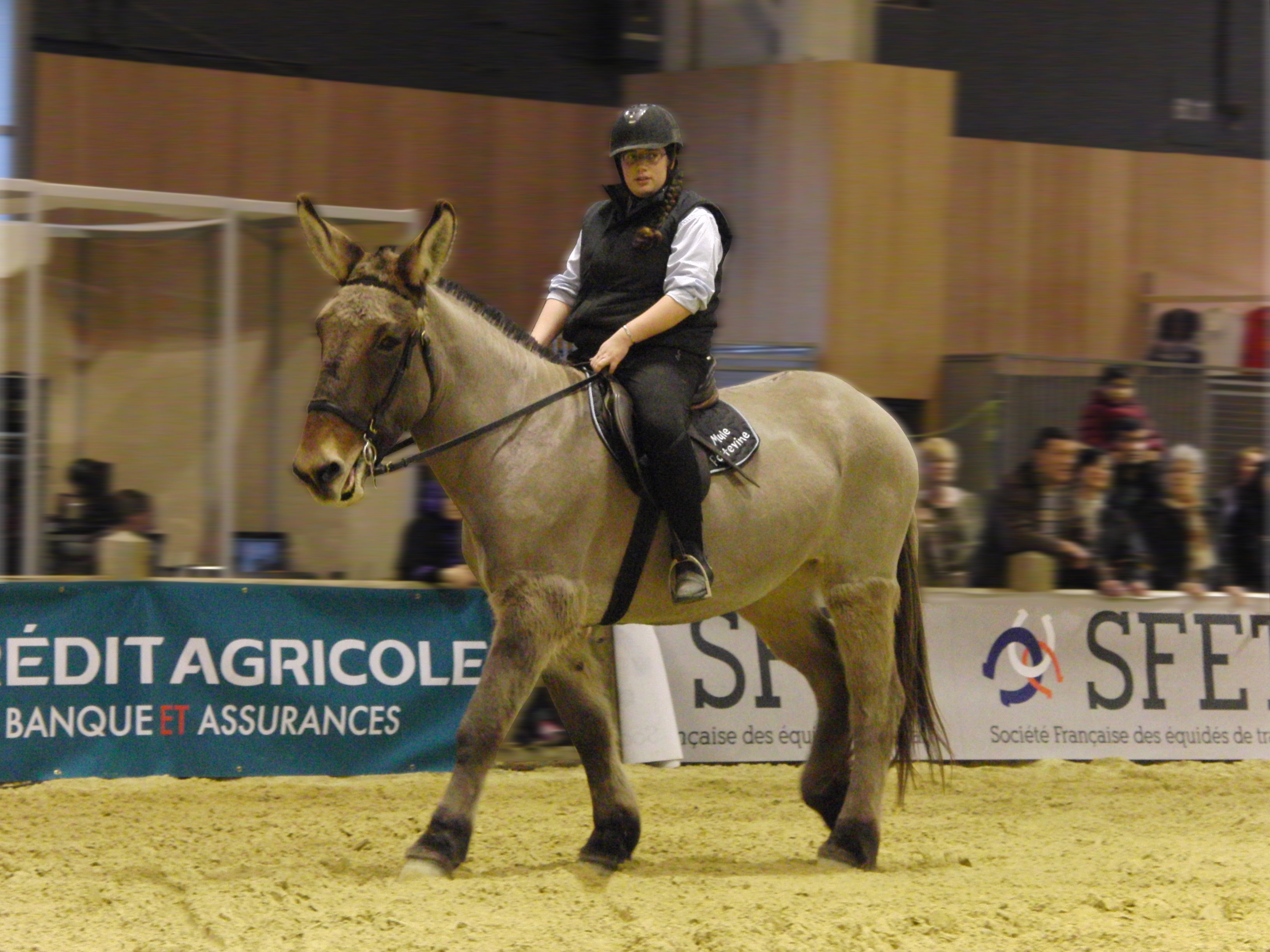 A Poitevin mule at the 2014 International Agriculture Show in Paris, France